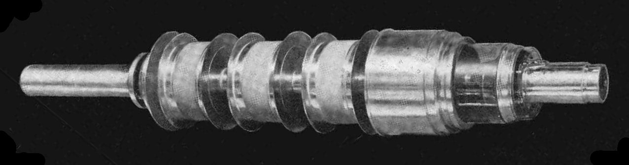 A 5 kW klystron vacuum tube, from an advertisement by Eitel-McCulloch Co. (Eimac) in a 1952 radio magazine. The klystron is a specialized linear beam transmitting tube used at high frequencies. This one was designed for use as the final amplifier in UHF television transmitters. The right end of the tube contains an electron gun, which emits a high energy beam of electrons which is absorbed by a collector electrode in the left end. A series of cavity resonators are installed along the tube. The UHF television signal to be amplified is applied by a coaxial cable to one resonator, called the "buncher". This causes the electrons to form bunches. The bunches excite a more powerful radio signal in a second cavity, called the "catcher", from which the output signal is taken. The source did not give any details about the tube. All the contacts on the tube are in the form of metal rings rather than pins as in ordinary vacuum tubes, to reduce the parasitic inductance, which can cause instability and parasitic oscillation at the high frequencies used. Alterations to image: Cropped out surrounding ad copy.